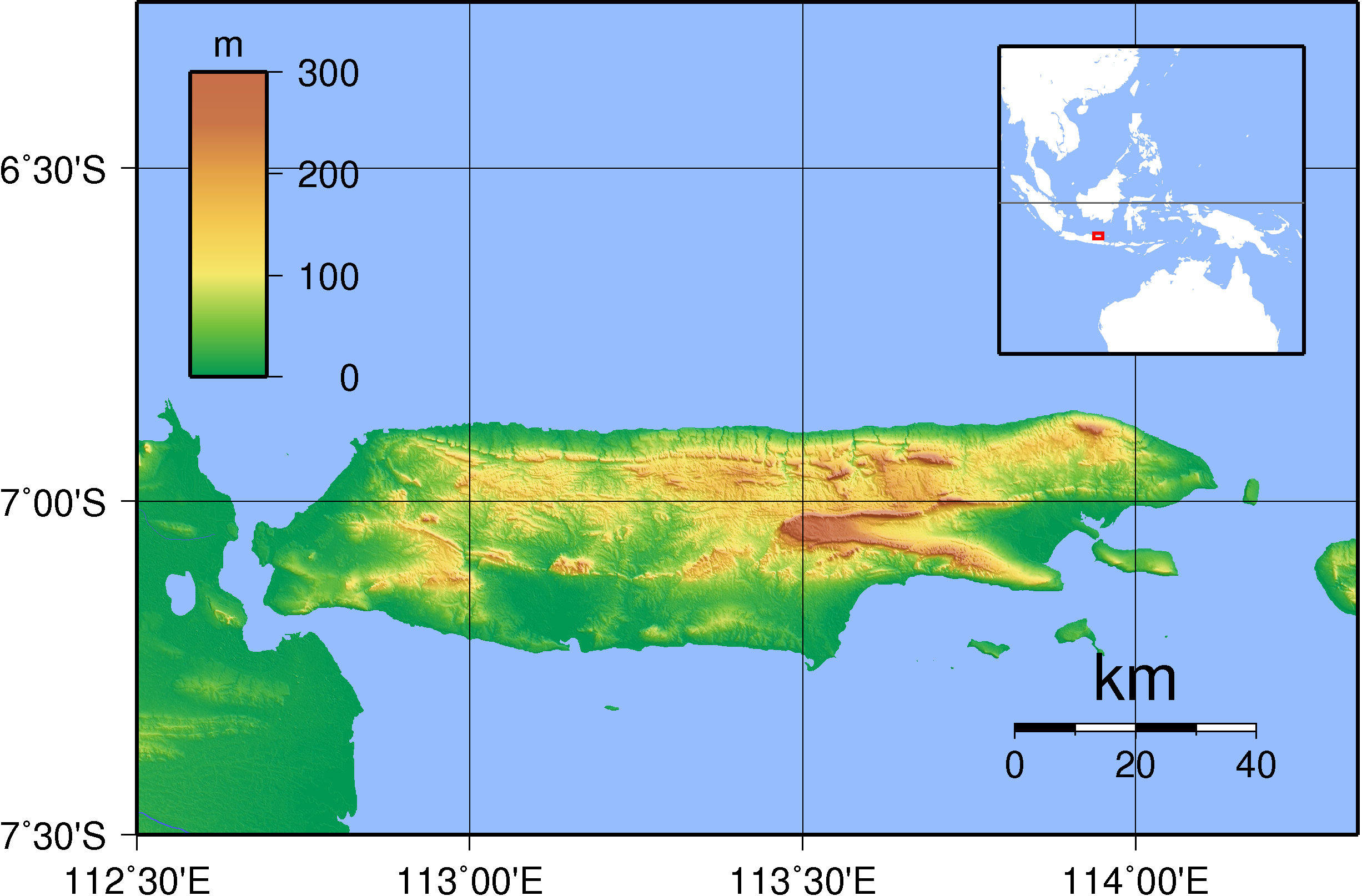 Topographic map of Madura, Indonesia. Created with GMT from SRTM data.